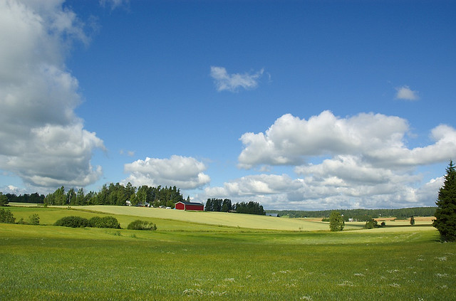 Field in Nurmijärvi, Finland